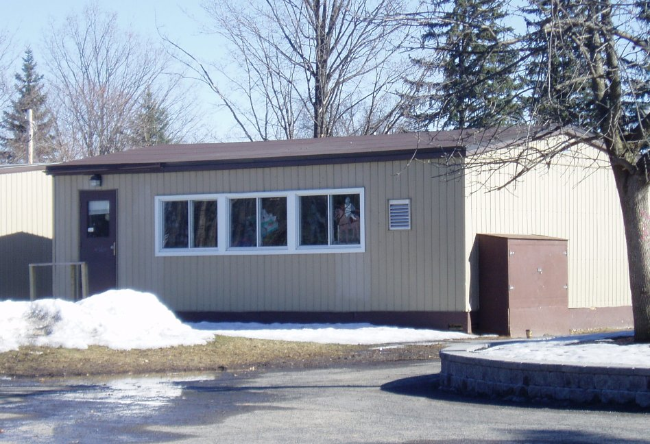 A Portable classroom, taken by SimonP